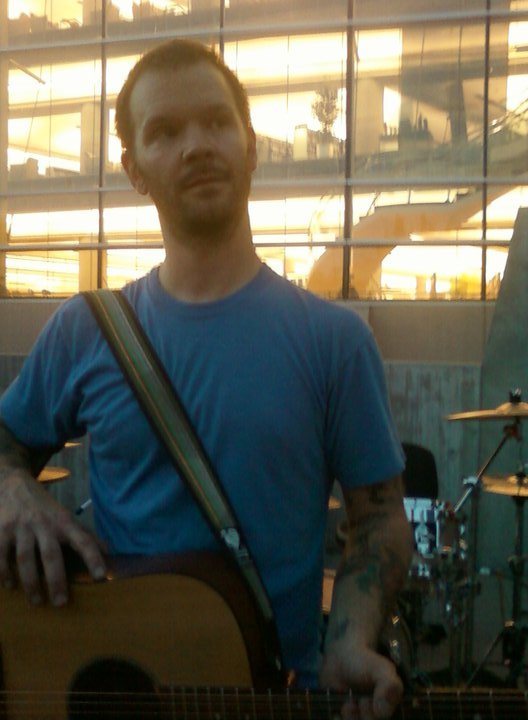 Jeremy Chatelain performing outside the library of downtown Salt Lake City, UT.